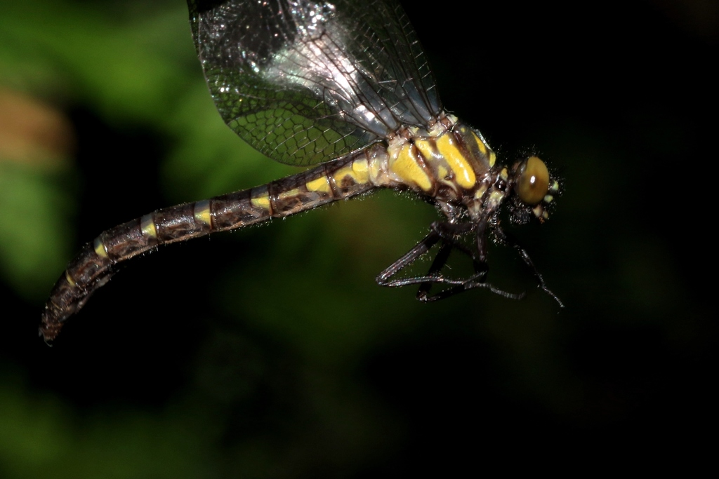 Northern Pygmy Clubtail (Lanthus parvulus), Parc lin�aire de la Rivi�re-des-Roches, Qu�bec, QC, Canada